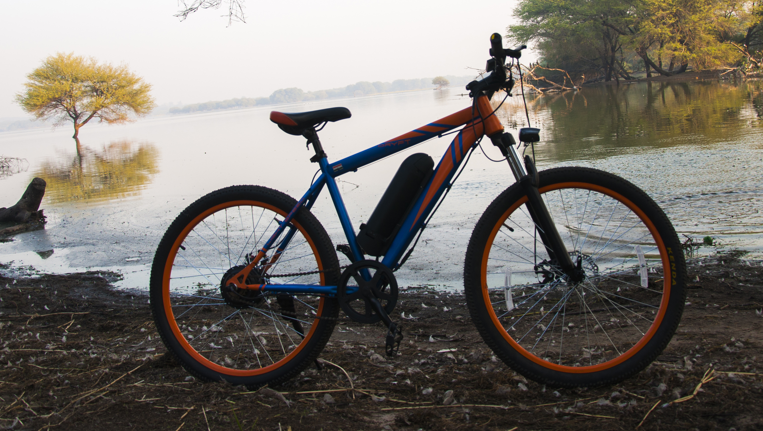 Lightspeed Dryft Electric Bicycle